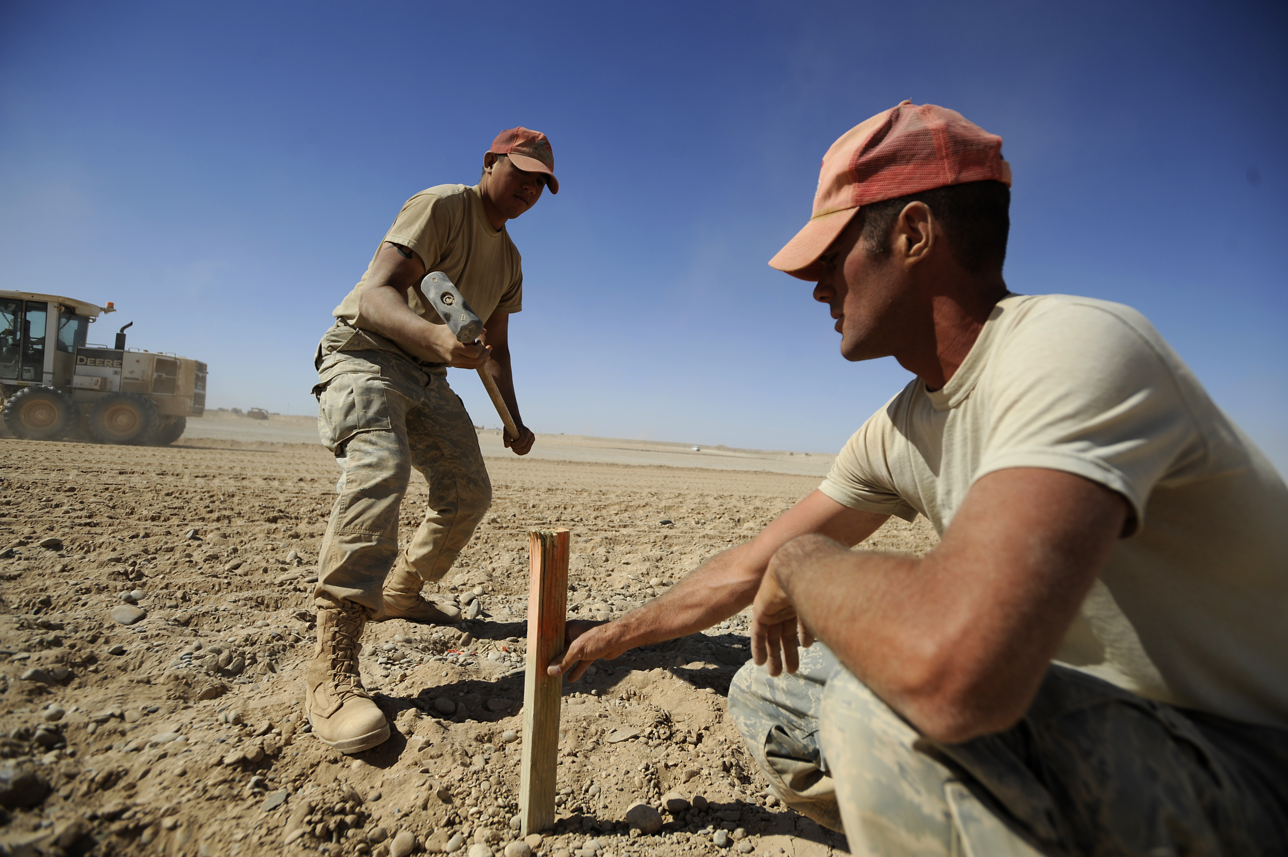 Airmen assigned to the 809th Expeditionary Red Horse Squadron, 1st Expeditionary Red Horse Group. is deployed from the 819th Red Horse Squadron, Malmstrom Air Force Base.